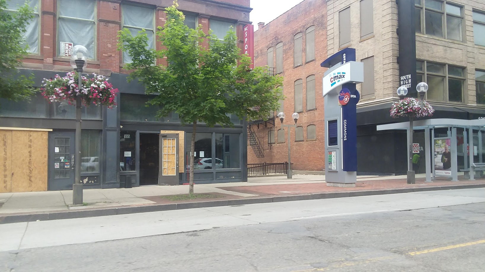 This is a photograph of businesses that were damaged during a riot in Columbus, Ohio, on May 28, 2020. The rioters were demonstrating against the death of George Floyd.